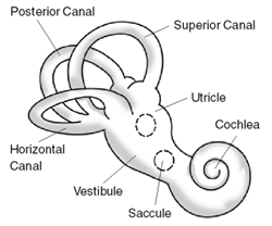 balance disorder image from public domain